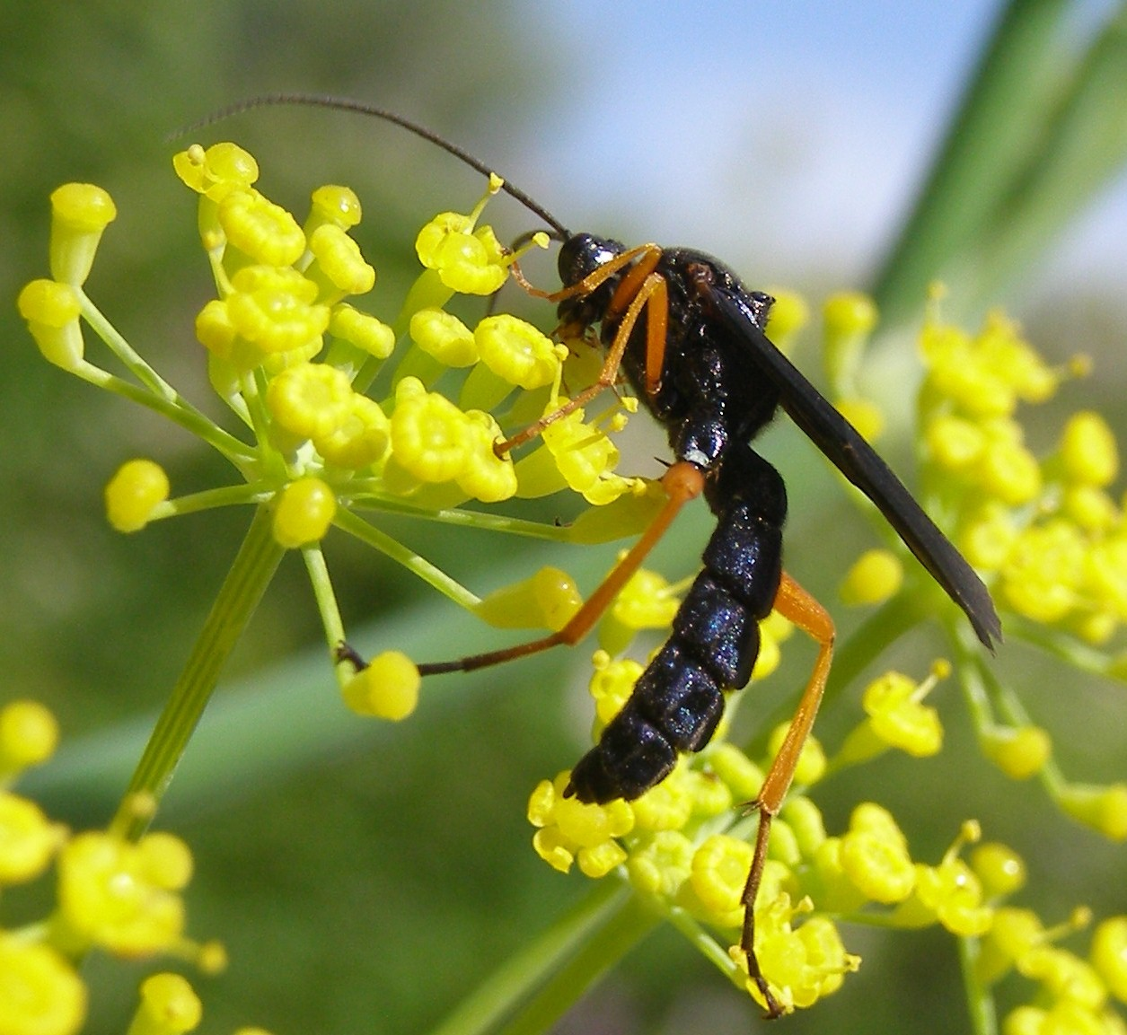 Trogus cf lapidator feeding on Foeniculum vulgare